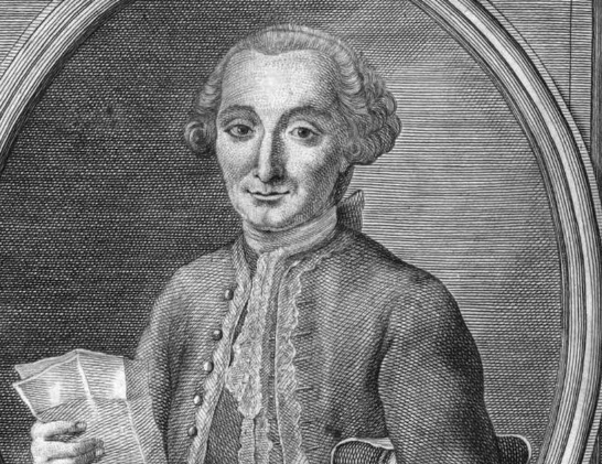 Picture of Cesare Orlandi, taken from Cesare Orlandi's book Delle città d'Italia e sue isole adjacenti [sic] compendiose notizie - Tomo primo (1770)